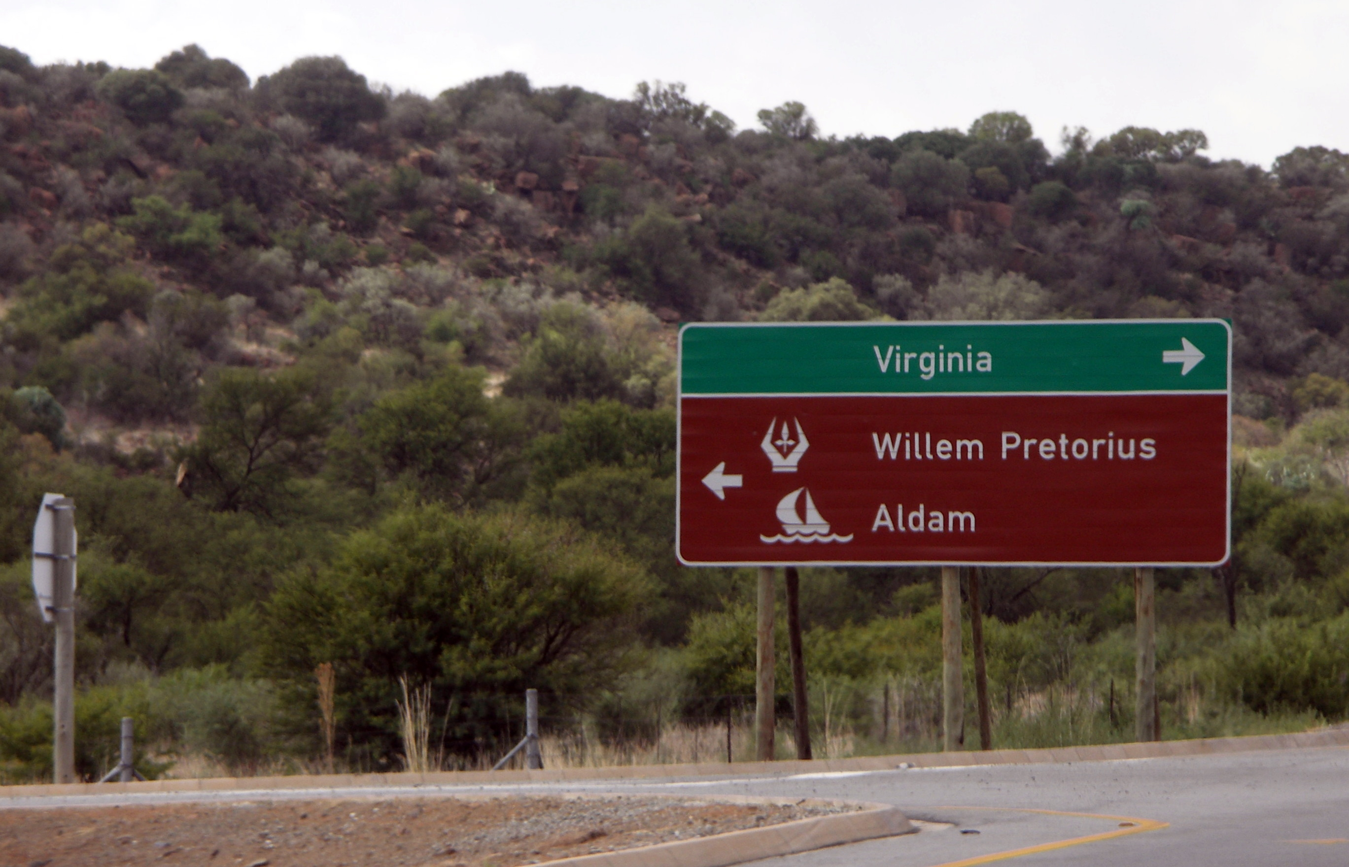 Signboard on the N1 national road to Willem Pretorius Game Reserve, South Africa